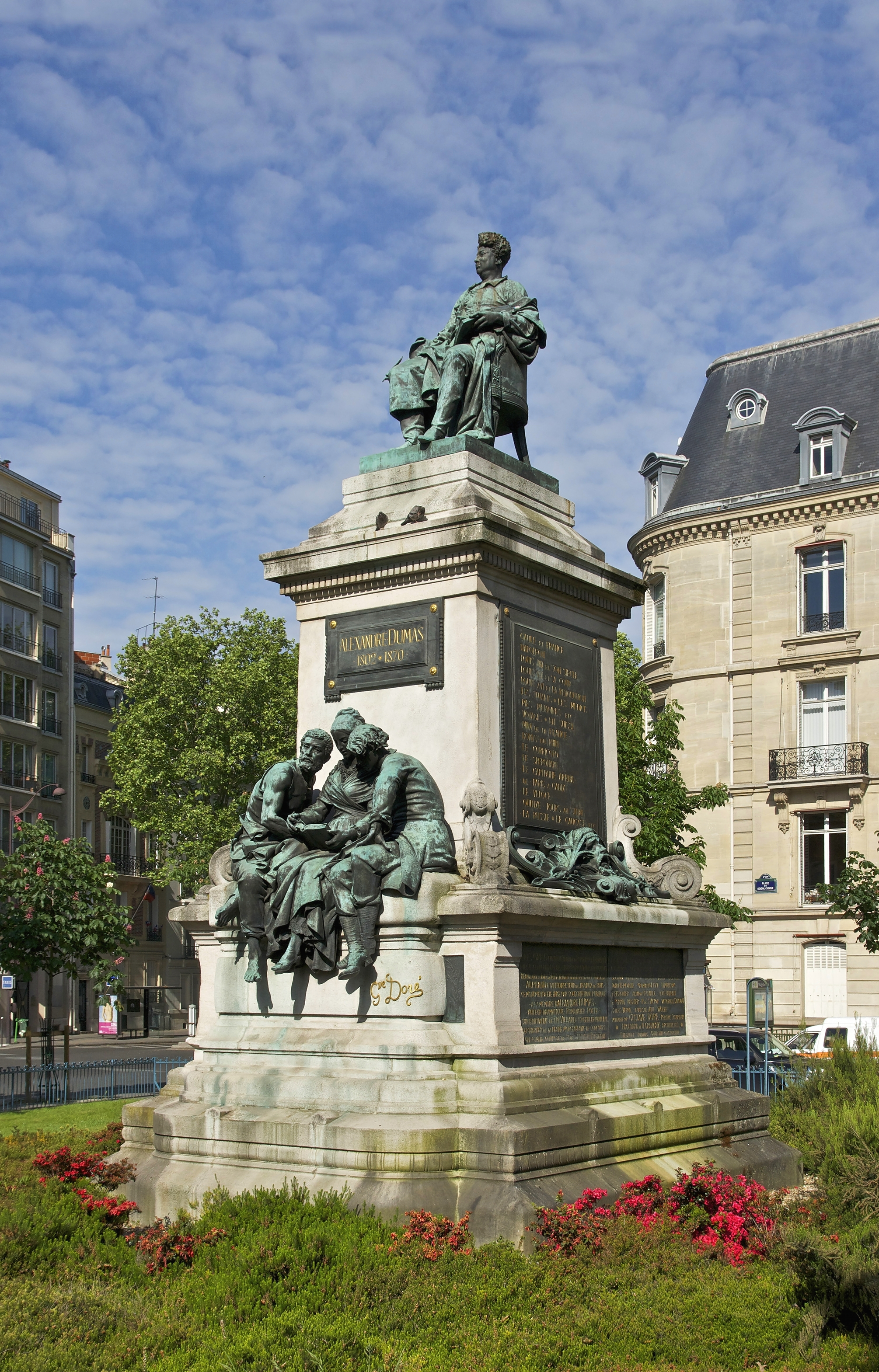 Monument to Alexandre Dumas (father), Paris, France.